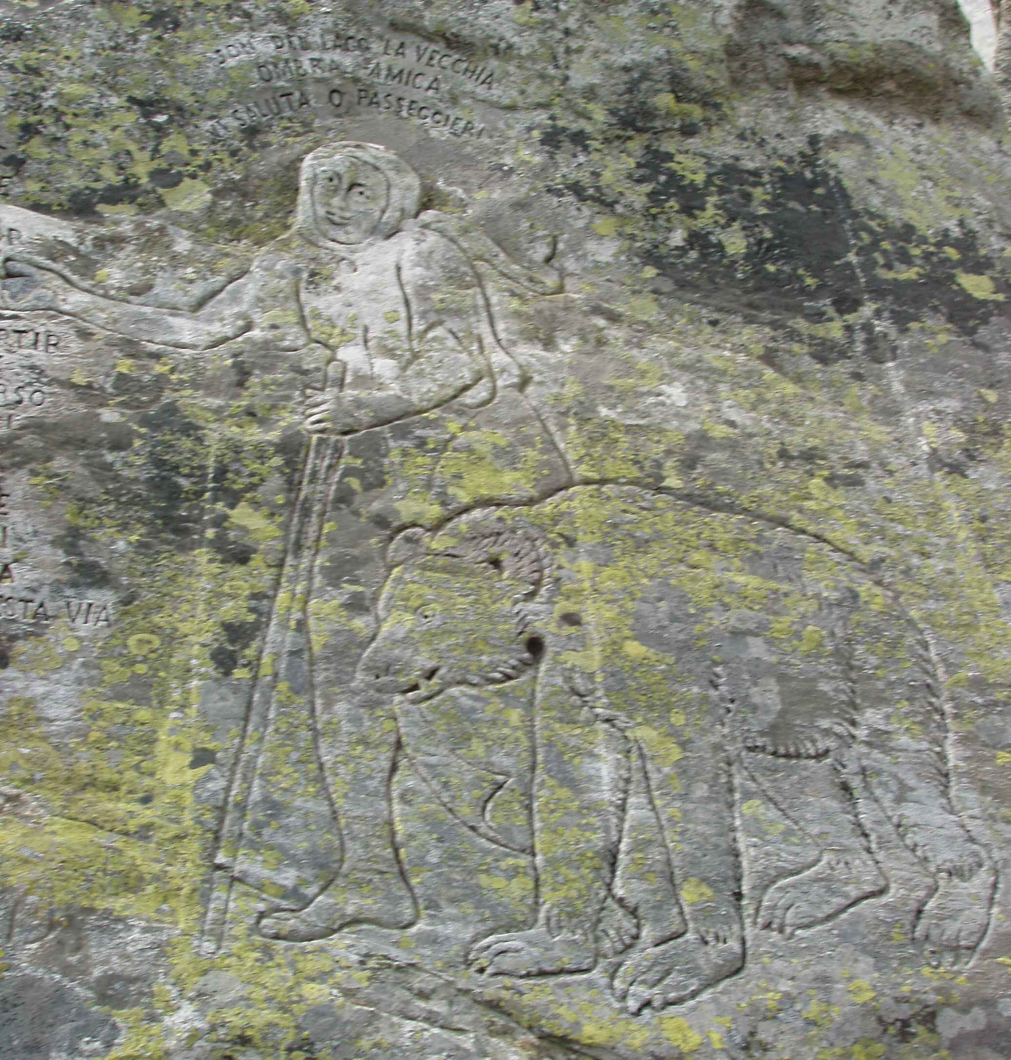 Stone engraving near Lago della Vecchia (Piedmont, Italy)